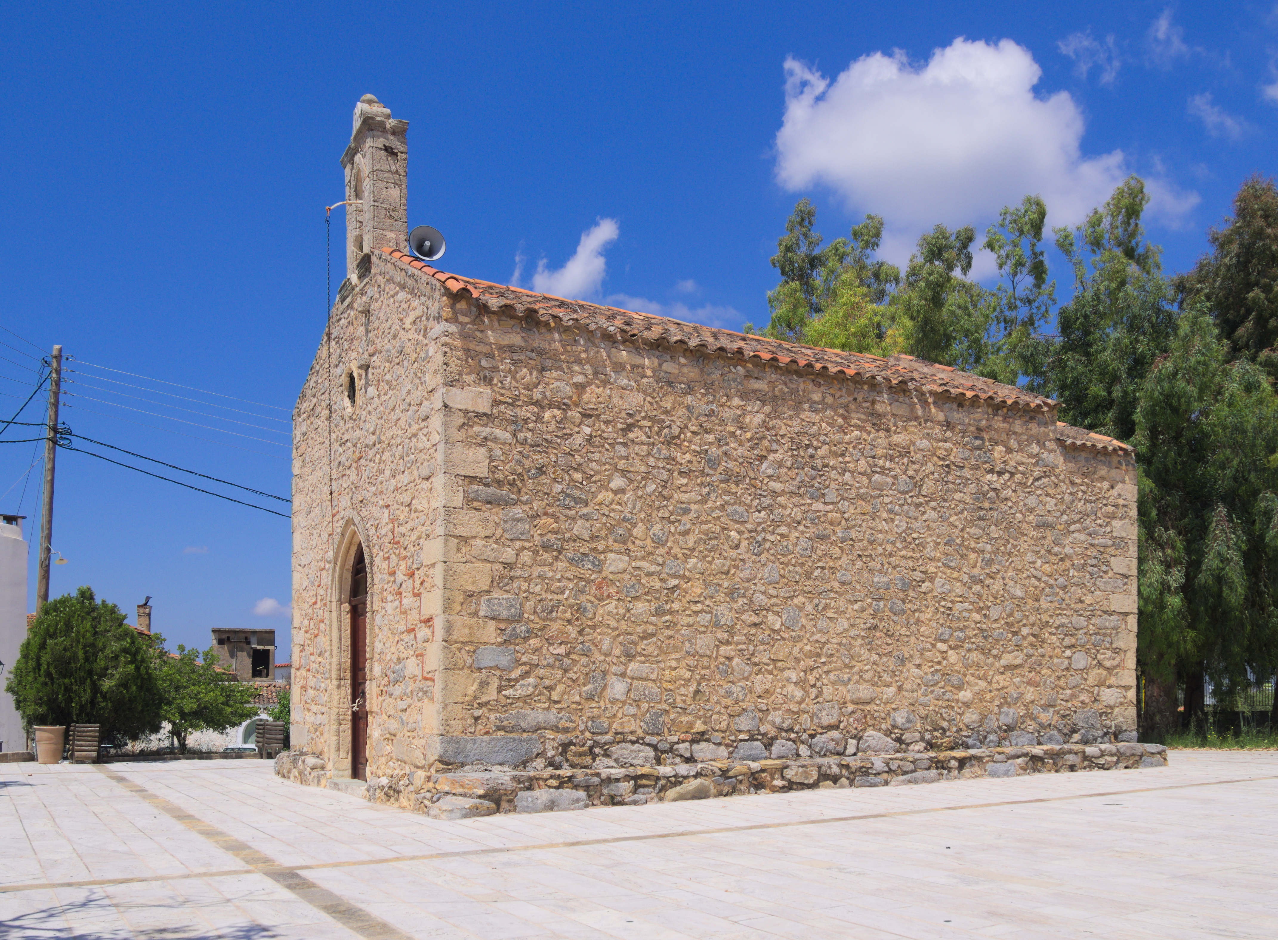 The 14th century church of Afentis Christos at Kastelli, Crete.